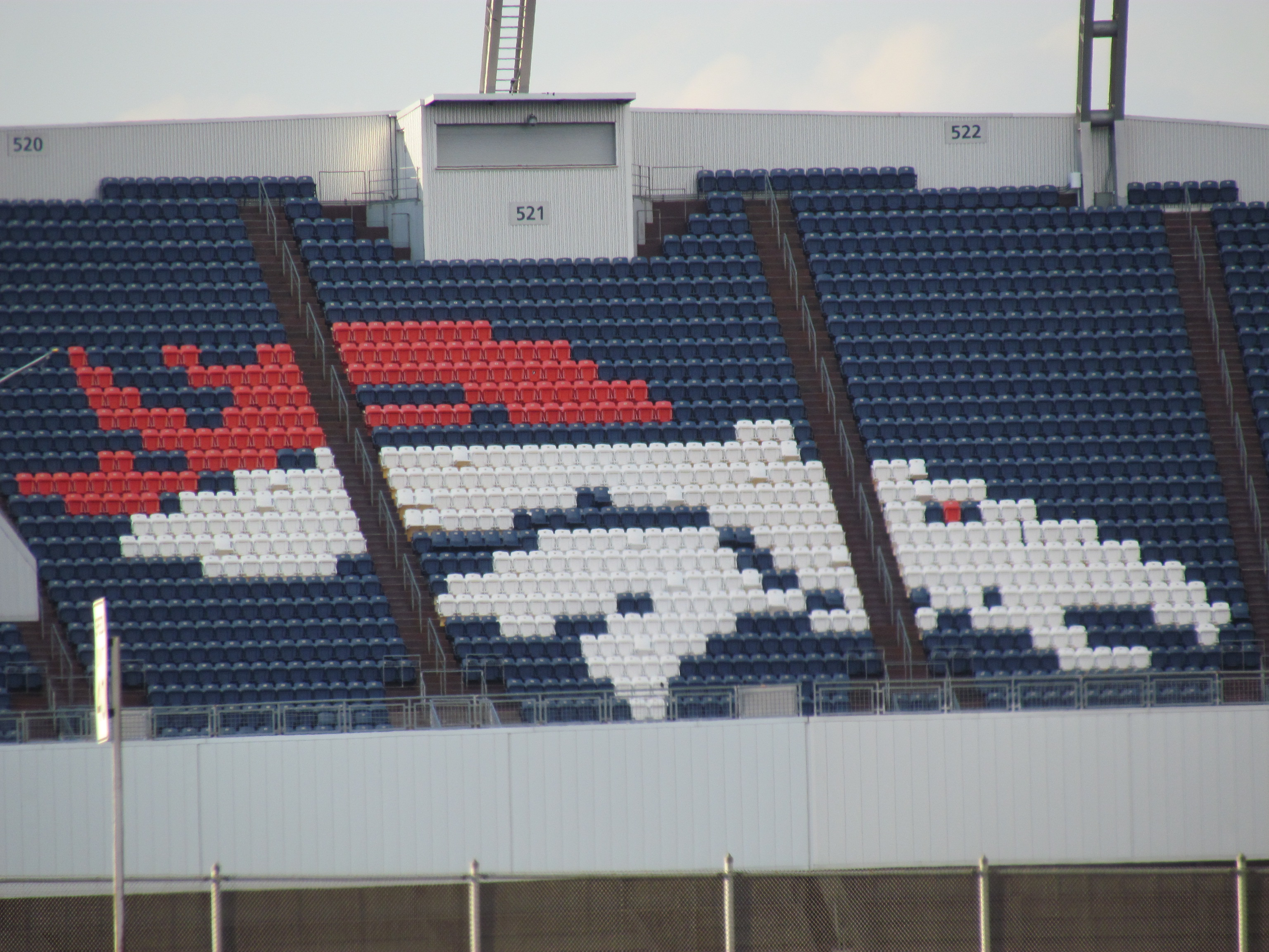 Detailed view of the bleachers arranged with the Denver Broncos logo.